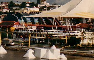 Expo '88 (photo taken from the Victoria Bridge (on the Brisbane River), in Brisbane, Queensland, Australia